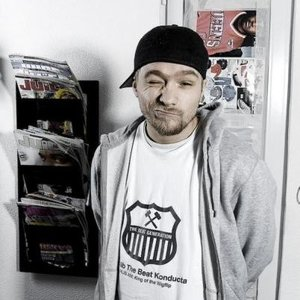 dj smoove portrait